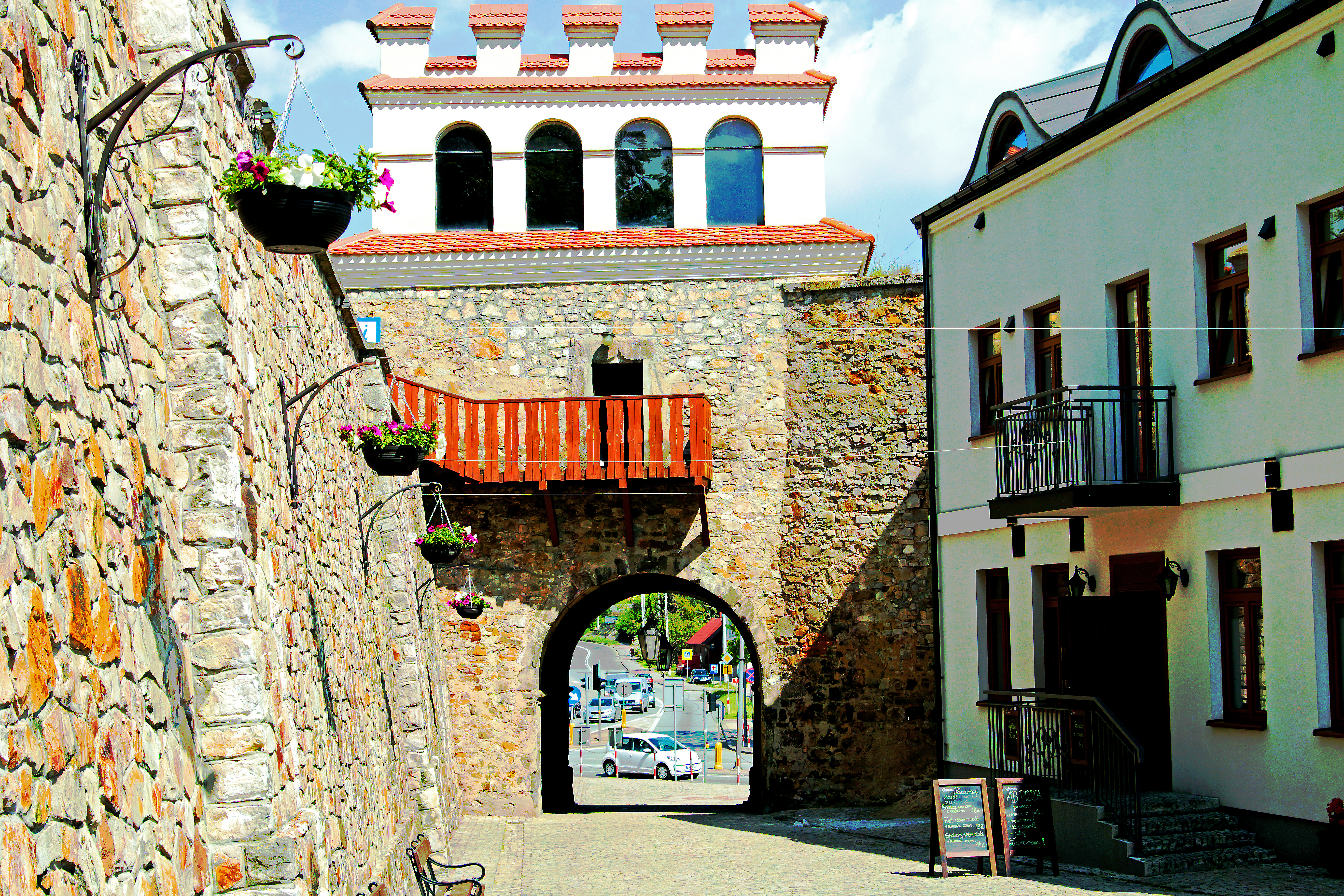 Warsaw Gate, Opatow, Poland